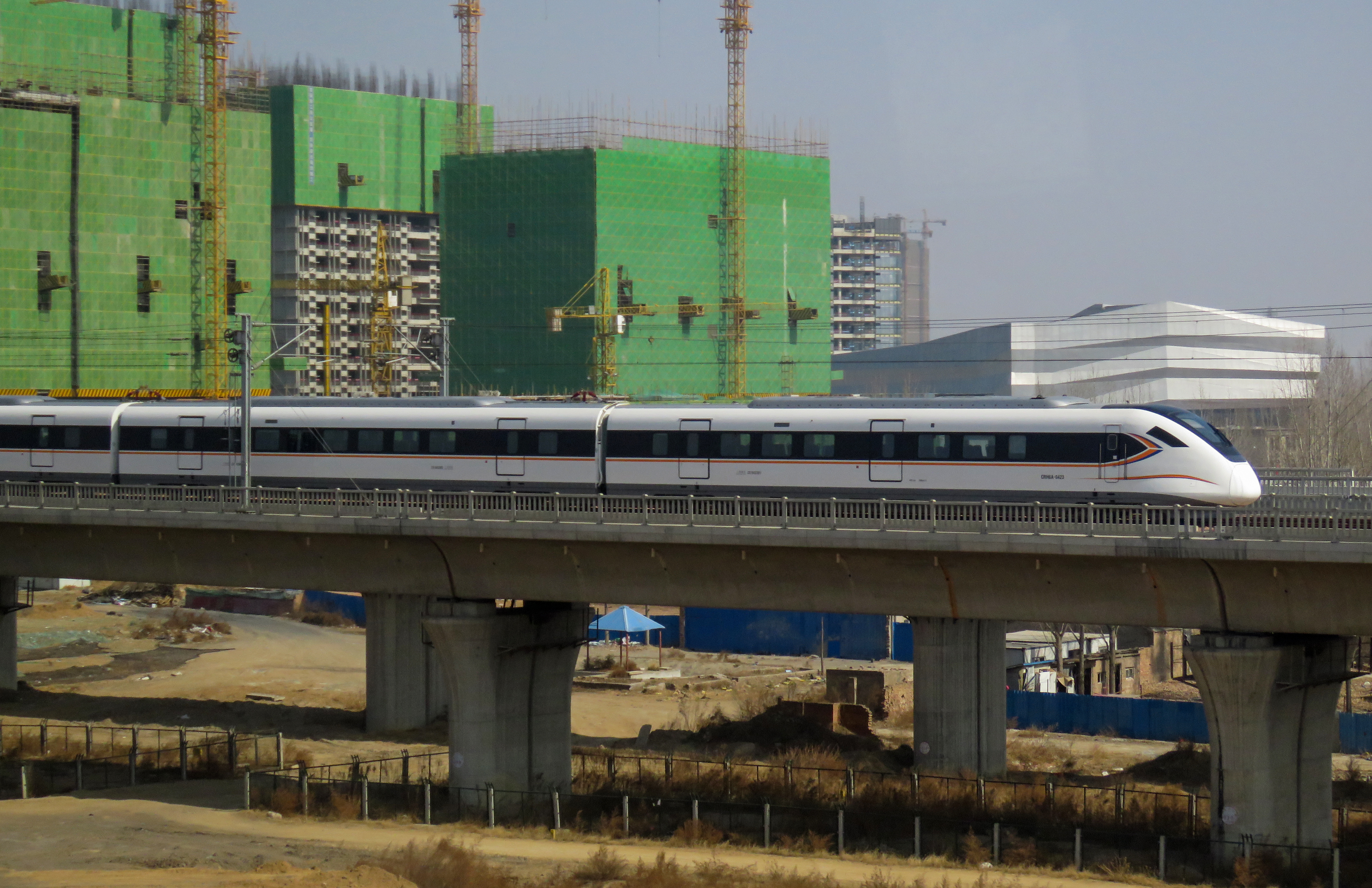 Possibly C2826 from Xinzheng Airport to Zhengzhou East. It should be noted that its intermediate carriages are fitted with 2 pairs of doors instead of 3.